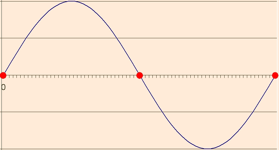 Zero crossings of a sinusoidal signal